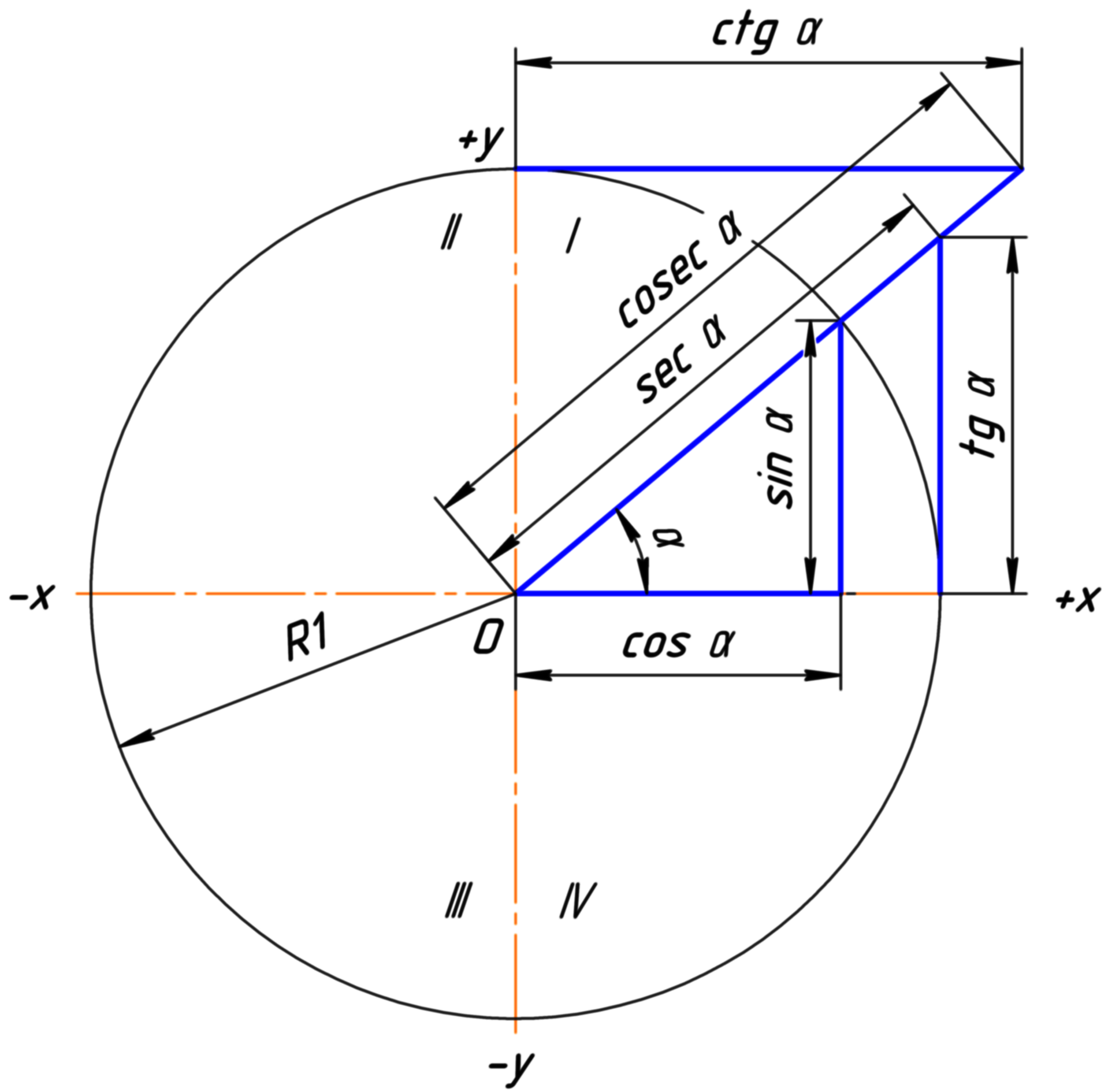 Trigonometric function sin, cos, tg, ctg, sec, cosec.